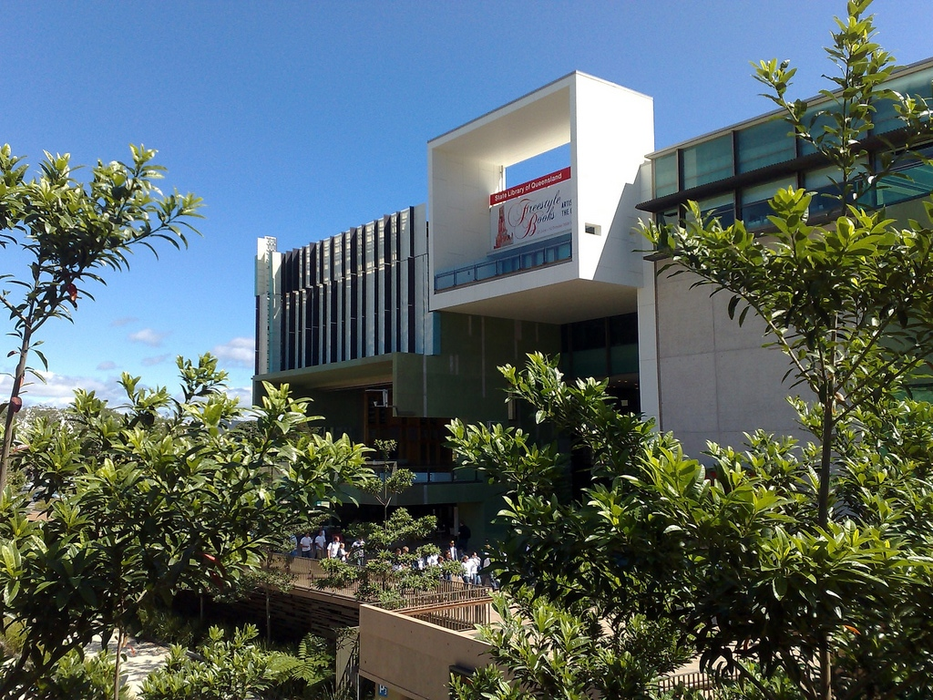 State Library of Queensland, Brisbane